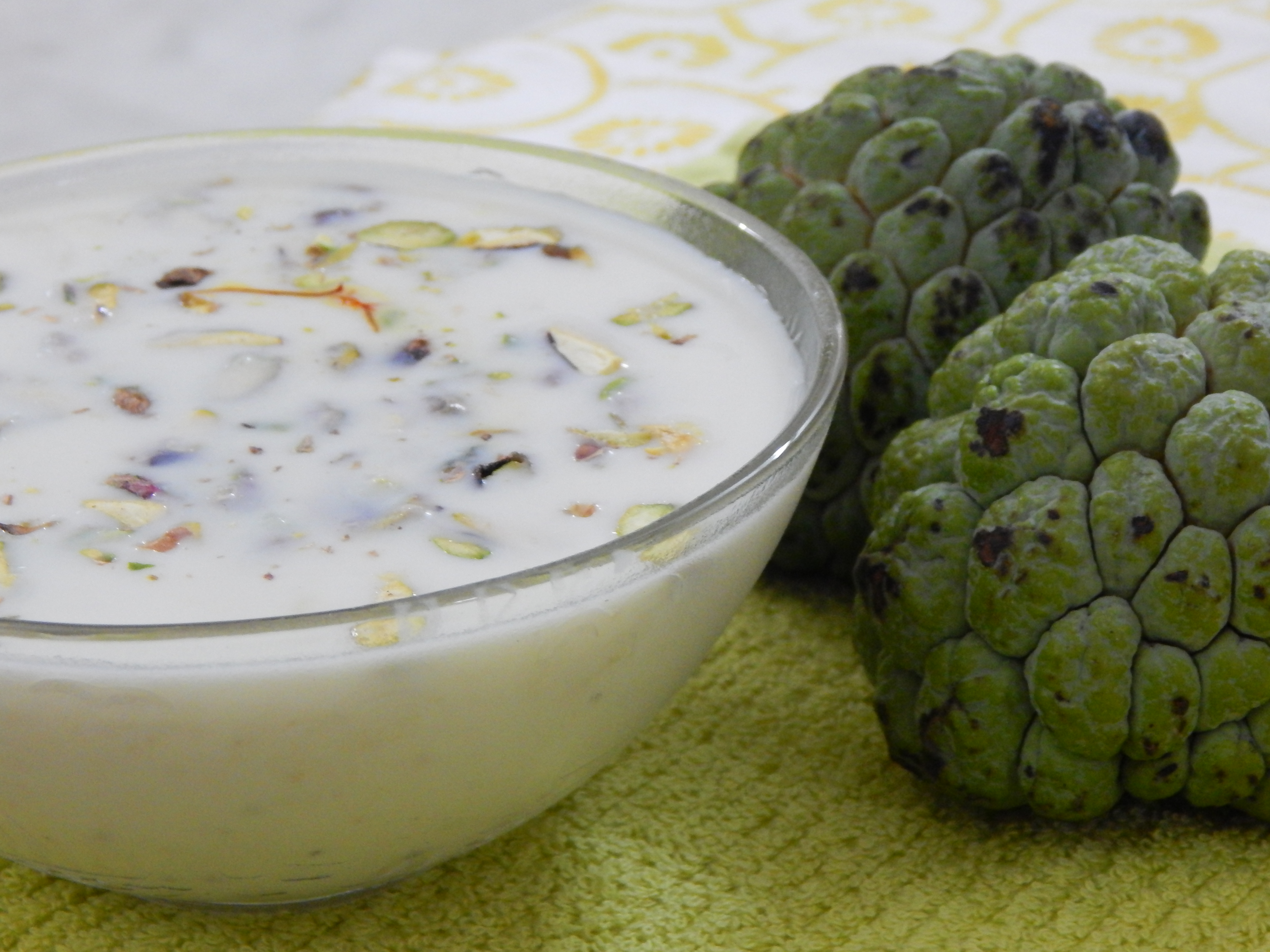 Sitafal Basundi